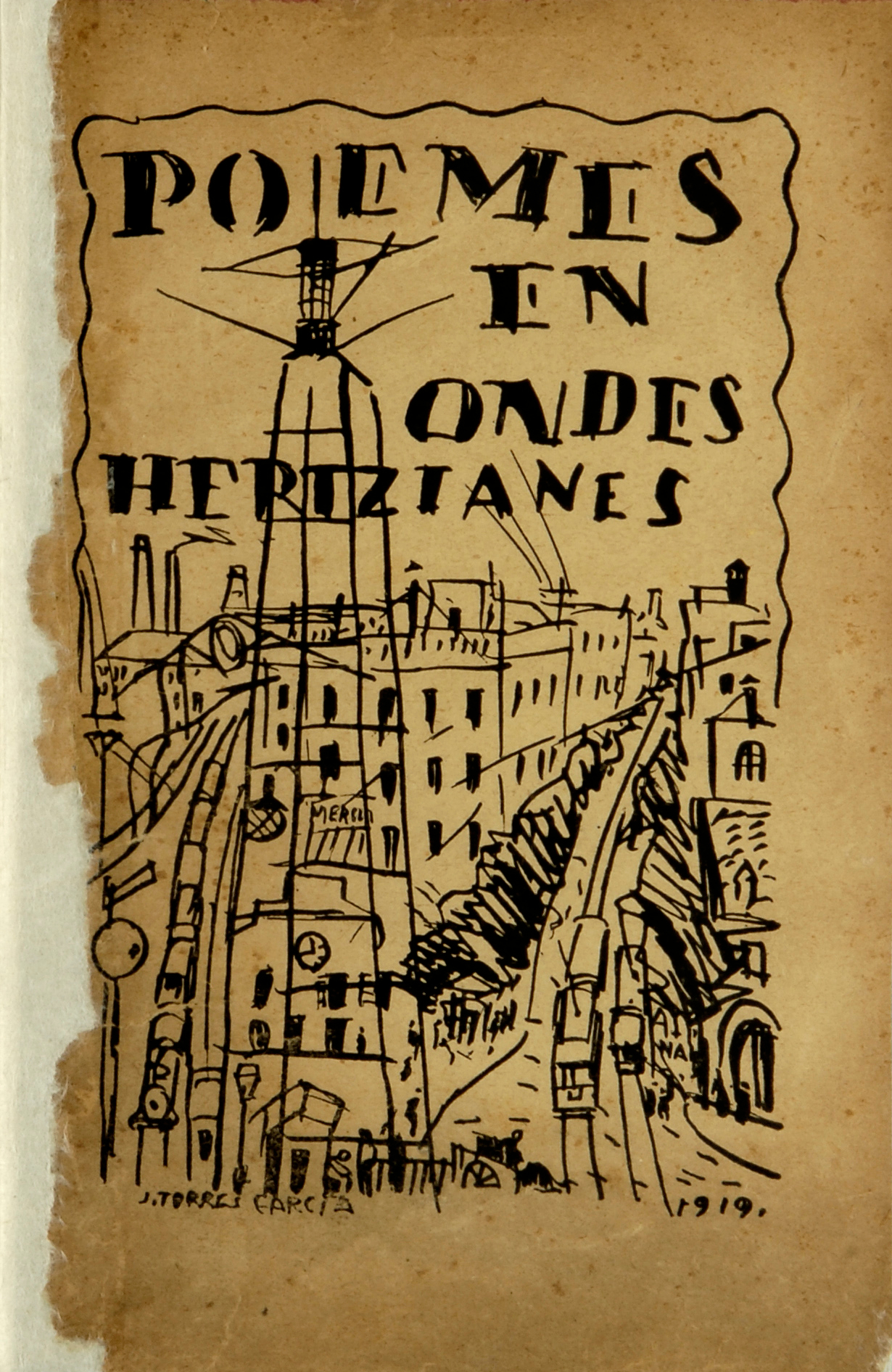 Cover from the Catalan book Poemes en ondes hertzianes.